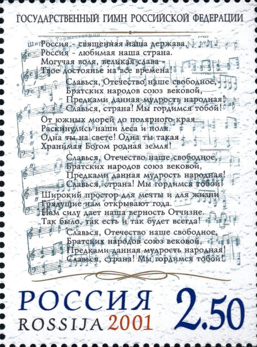 2001 Russian stamp showing the lyrics of the newly adopted Russian anthem.